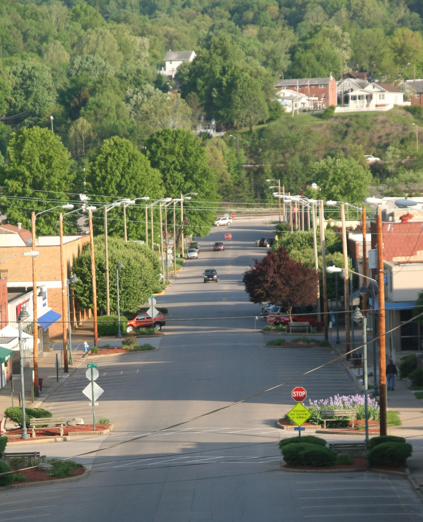 A spring evening on D Street, South Charleston, West Virginia